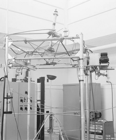 The Lady Godiva device after the criticality accident of 3 Feb 1954. An unreflected 54Kg sphere of 93.7% pure 235U, [in the scrammed state]. The criticality excursion released 5.6x1016 neutrons and warped or broke several support structures of the device. There was no radiation exposure to workers who were 1/4 mile away controlling the experiment and there was no contamination of the area. References review of criticality accidents - 2000 revision (pdf). Los Alamos Scientific Laboratory (2000-05). Retrieved on 2008-02-29.